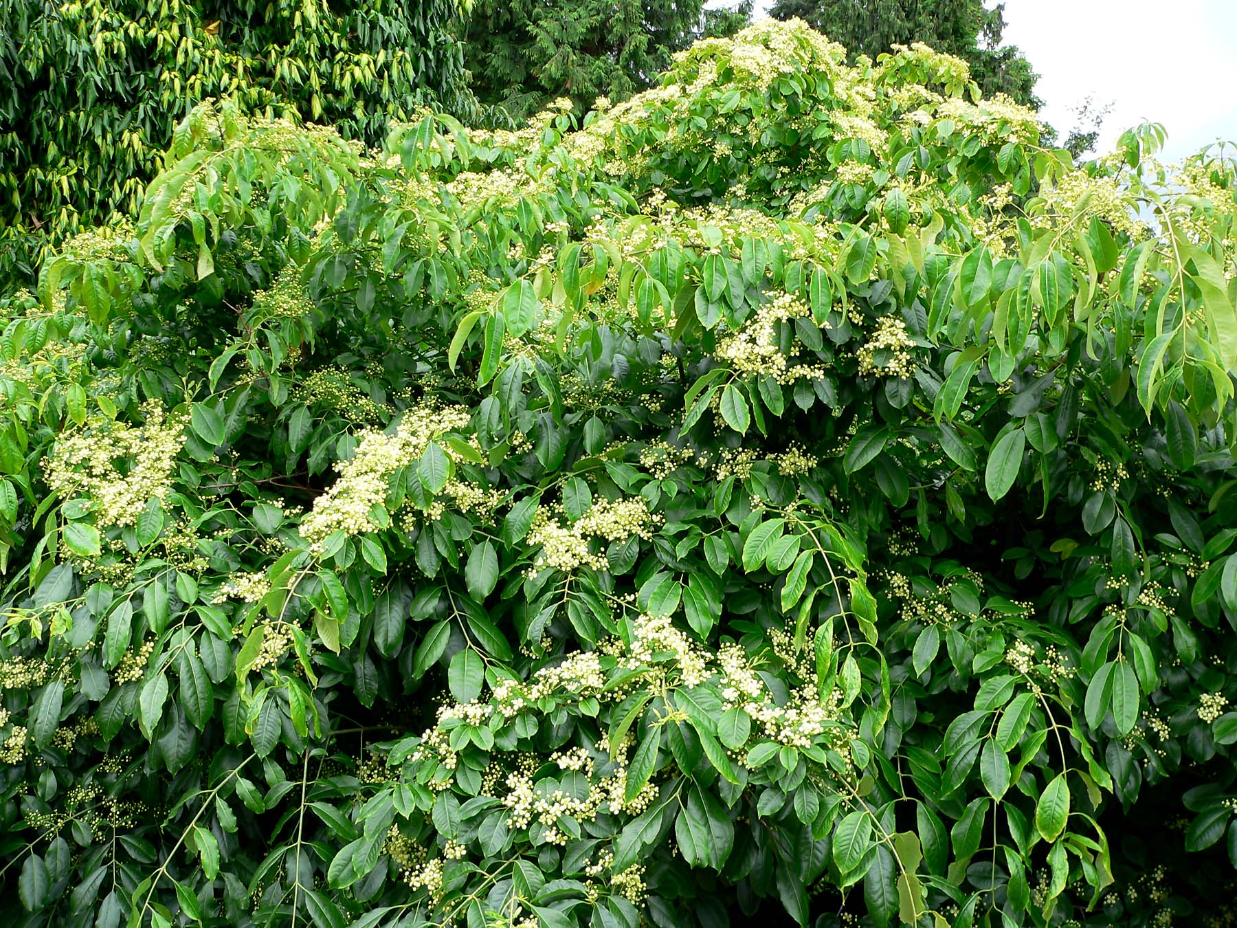 Photo of Euonymus carnosus at the UBC Botanical Garden in Vancouver